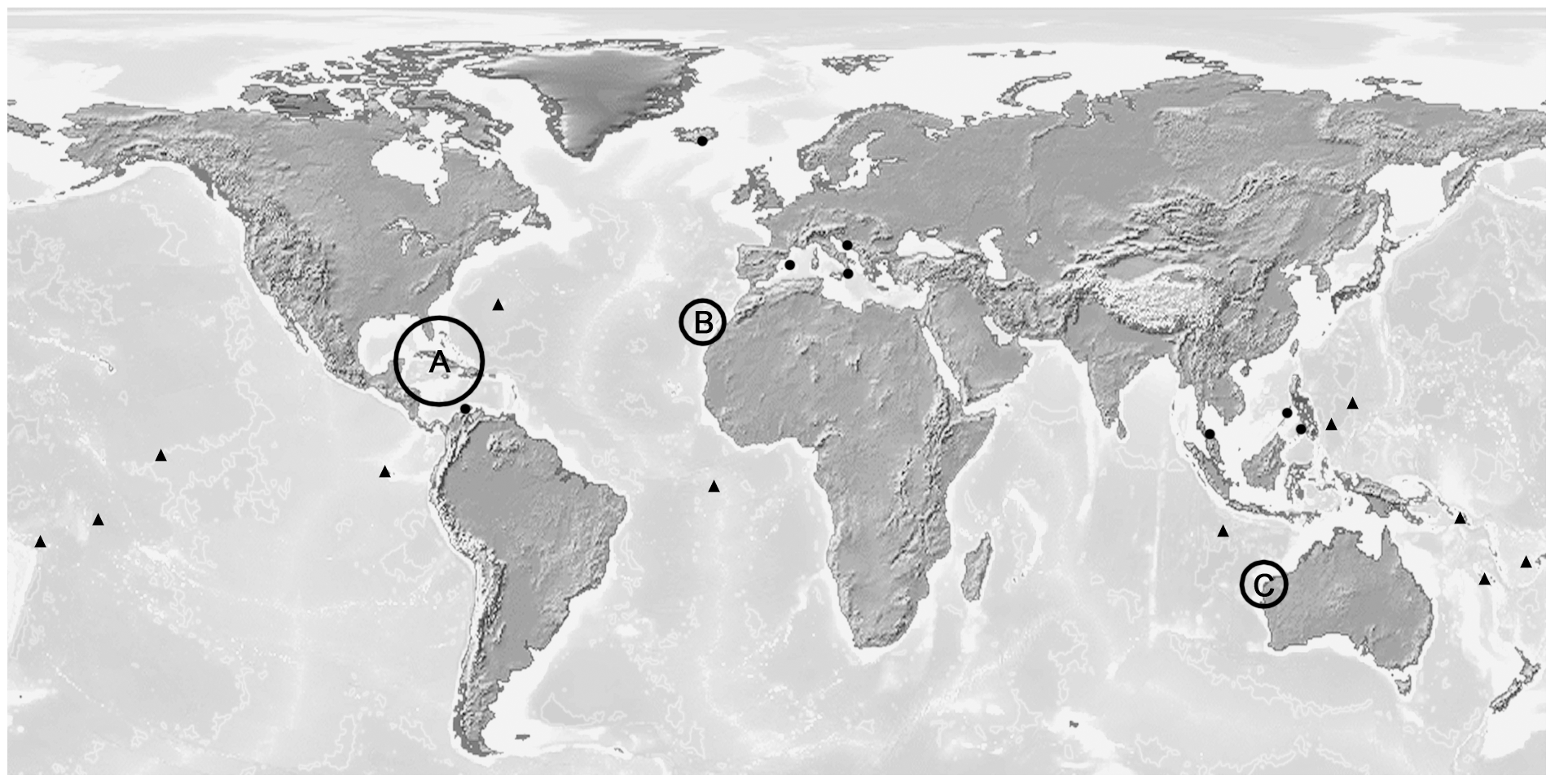 Remipedia species inhabit (A) the larger Caribbean region, (B) the Canarian Island and (C) Western Australia. Dots and triangles indicate Epicontinental anchialine caves and ones on isolated seamount islands, both without remipedes.